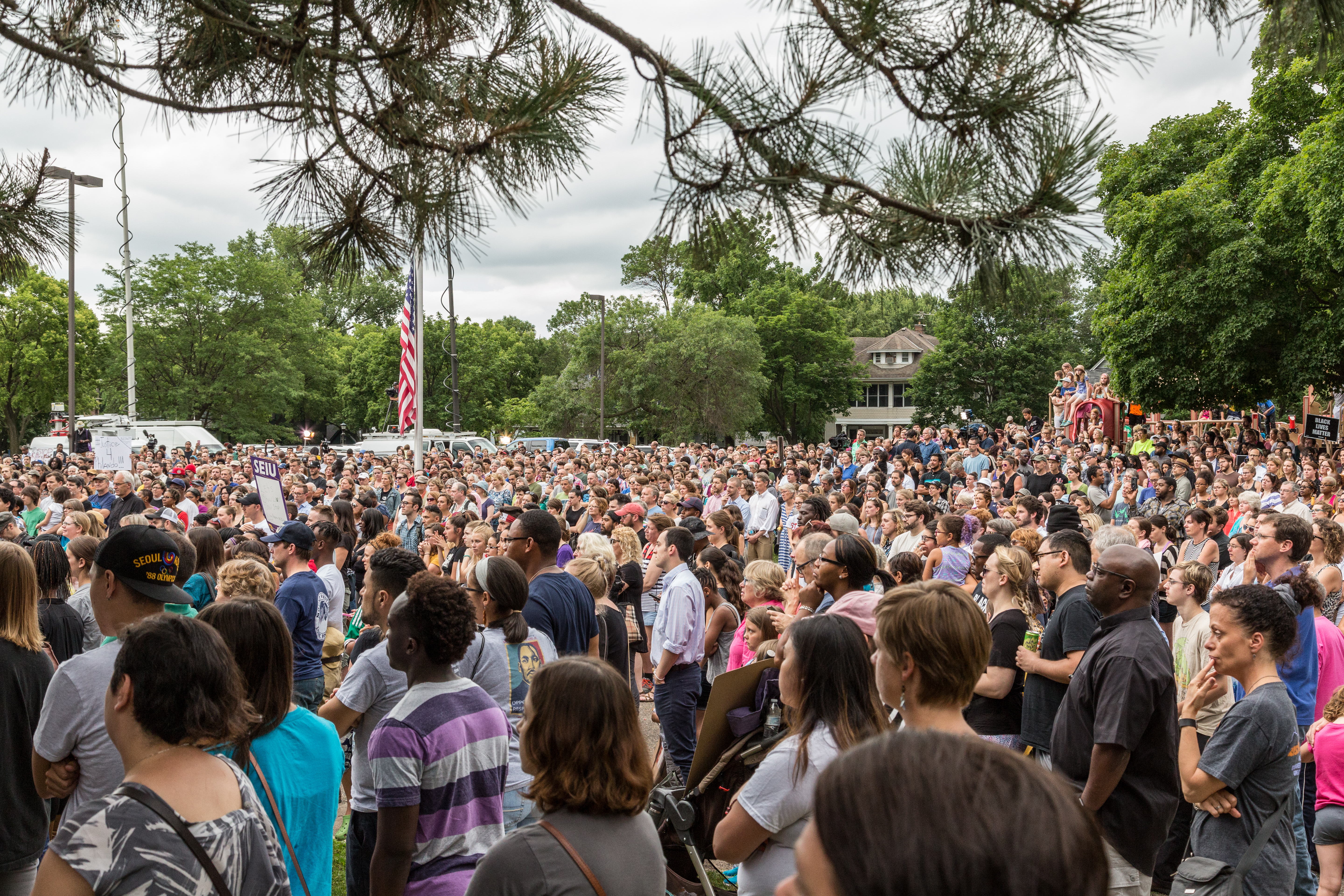 Following the police shooting death of Philando Castile, in Falcon Heights, Minnesota, community members march from the Governor’s mansion to J.J. Hill Montessori School where Castile worked, and back to the Governor’s mansion, in St. Paul. July 7, 2016. Photo: Tony Webster /